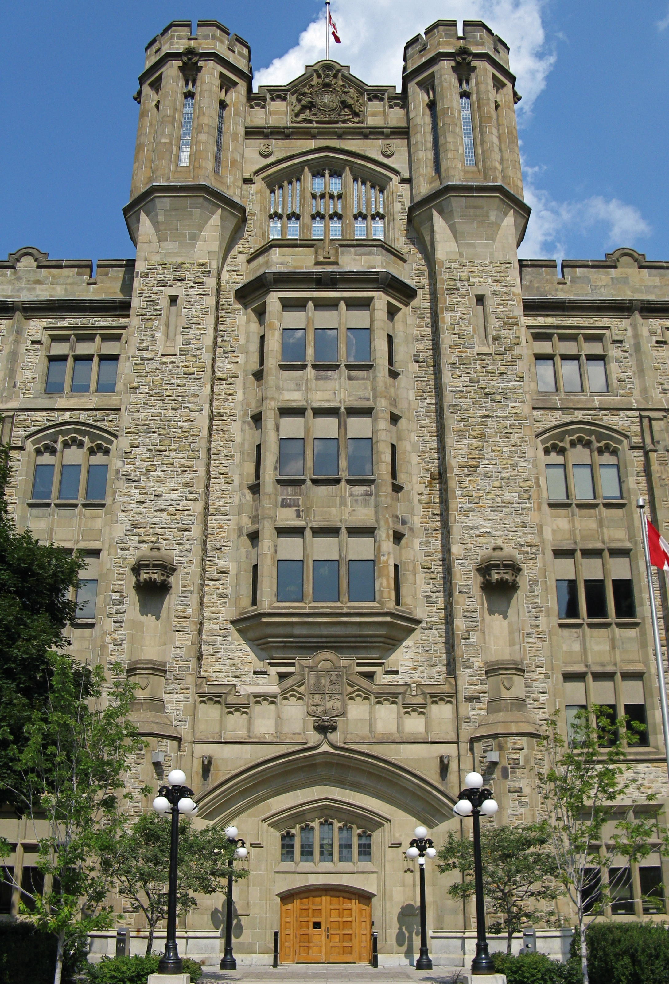 Entrance to the Connaught Building located at 525 MacKenzie Avenue in Ottawa, Canada. Headquarters of the Canada Revenue Agency.